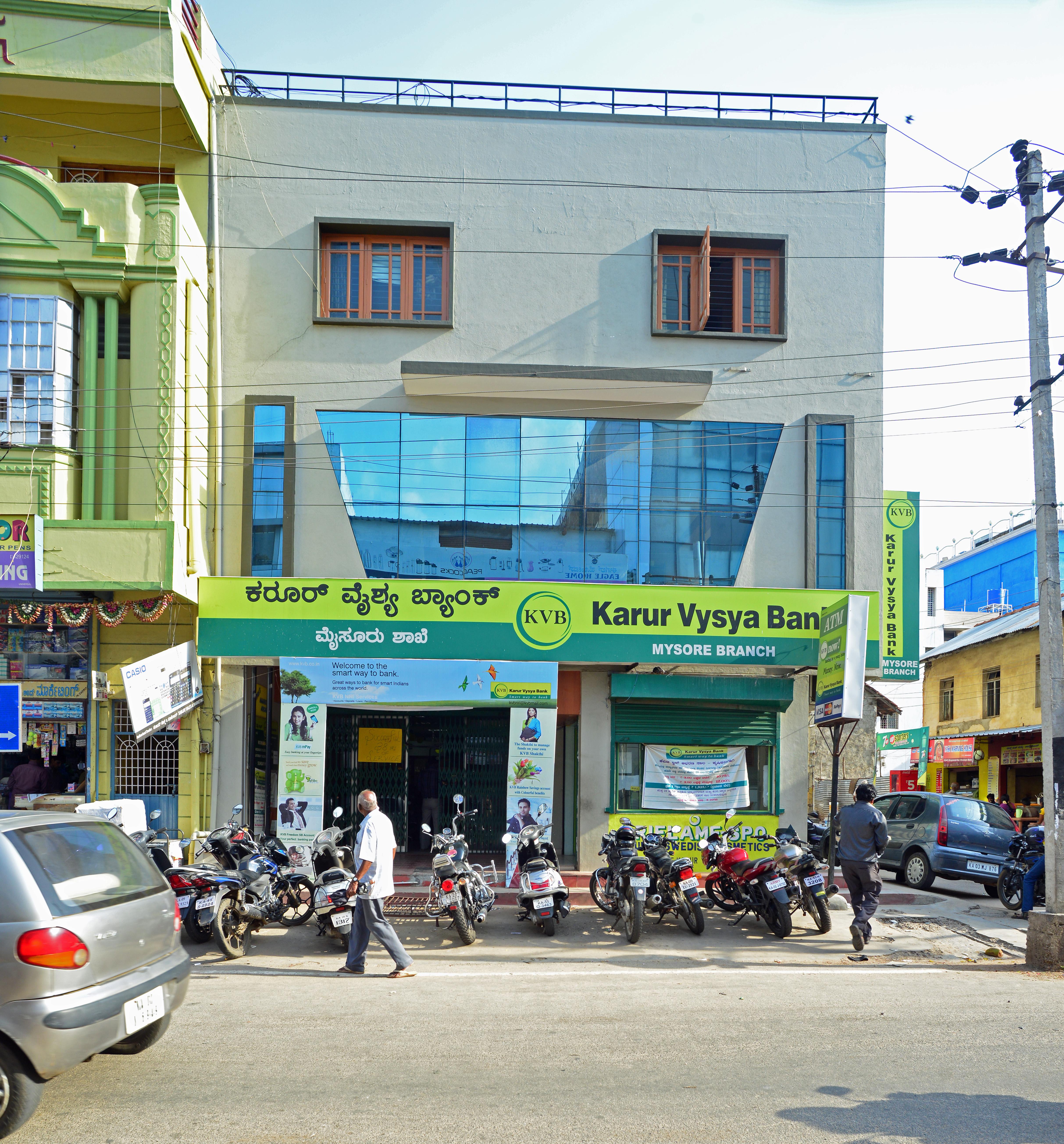 Karur Vysya Bank - Mysore Branch. Vinoba Road, Shivarampet, Mysore